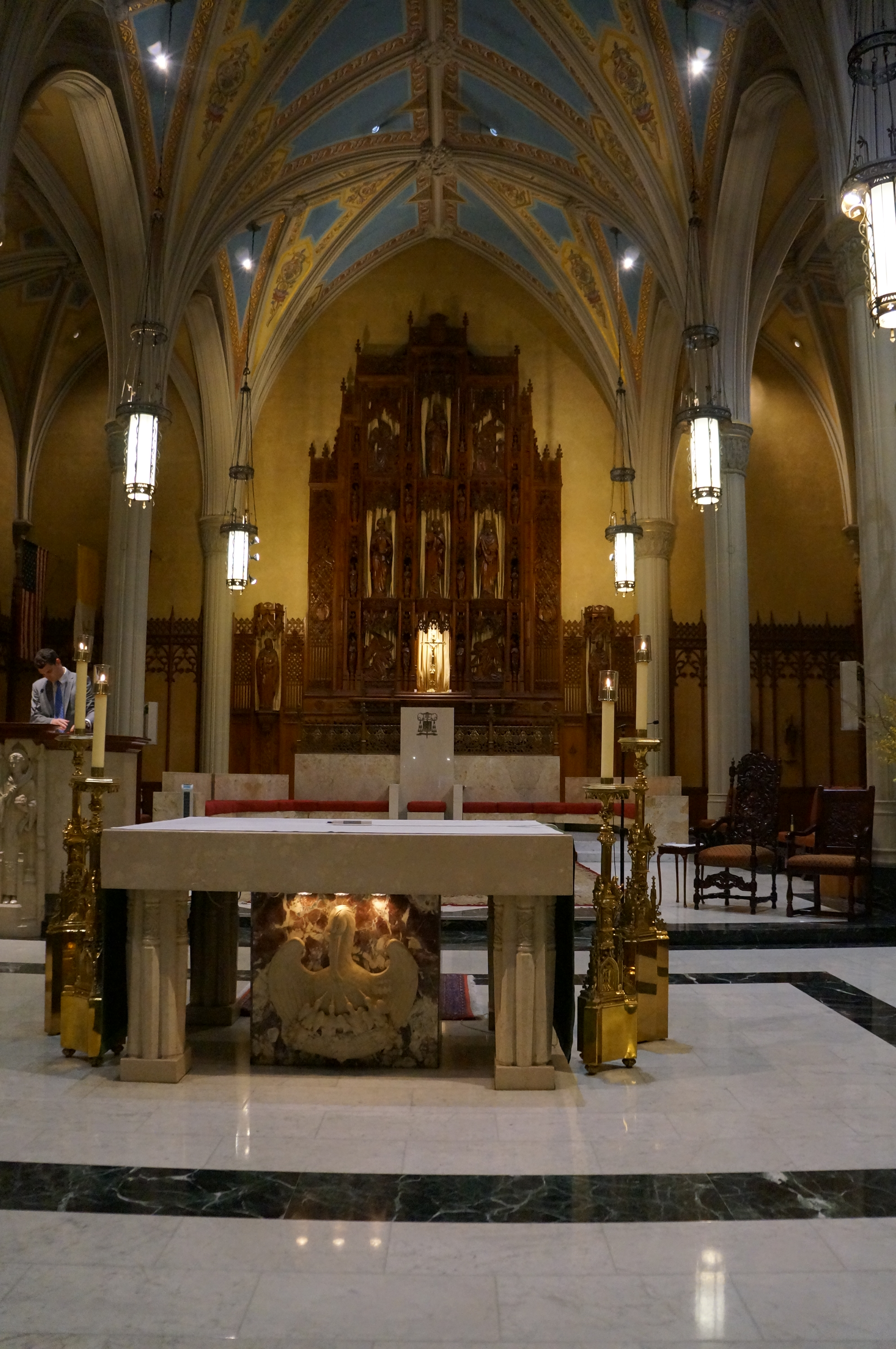 Interior of the Cathedral of St. John the Evangelist - Cleveland, OH